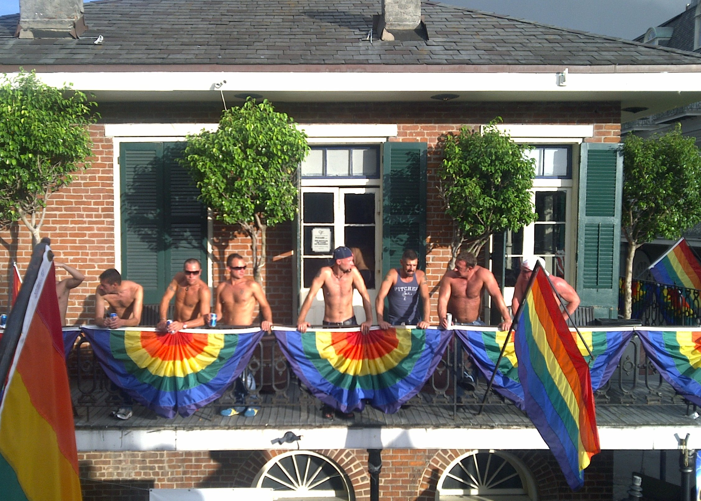 Southern Decadence, New Orleans. Men on Bourbon Street balcony with their shirts off. Because it's sunny, Jamie says